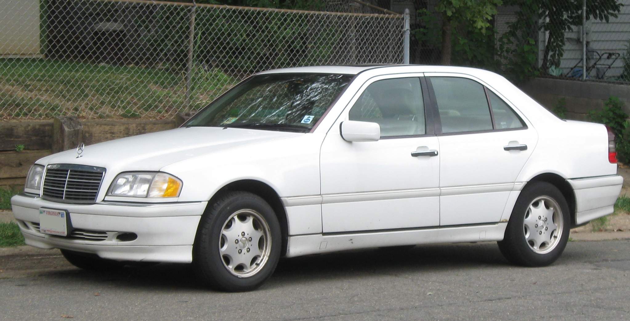 Mercedes-Benz C280 photographed in Fairfax, Virginia, USA.